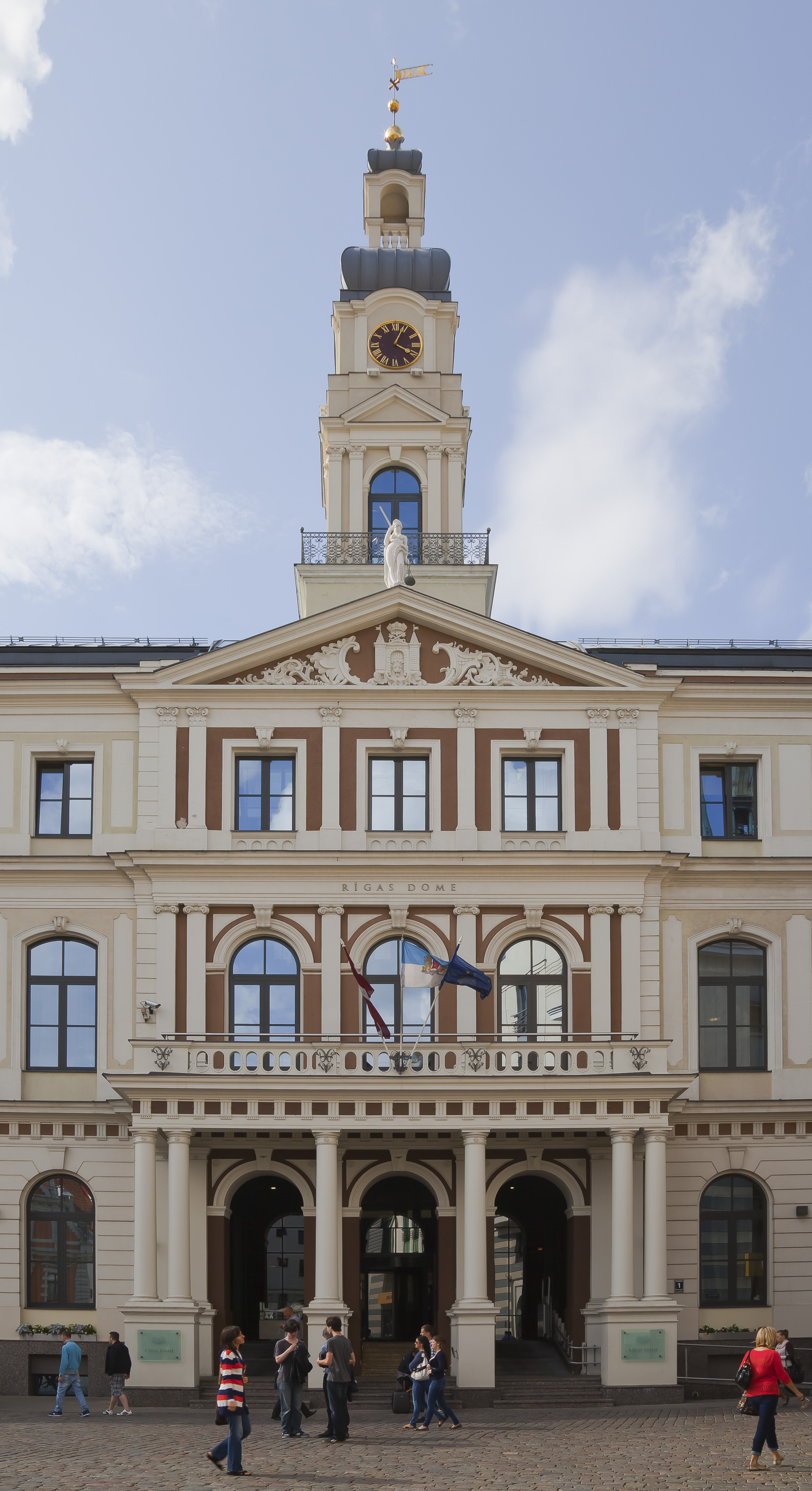 Riga Town Hall, Riga, Latvia